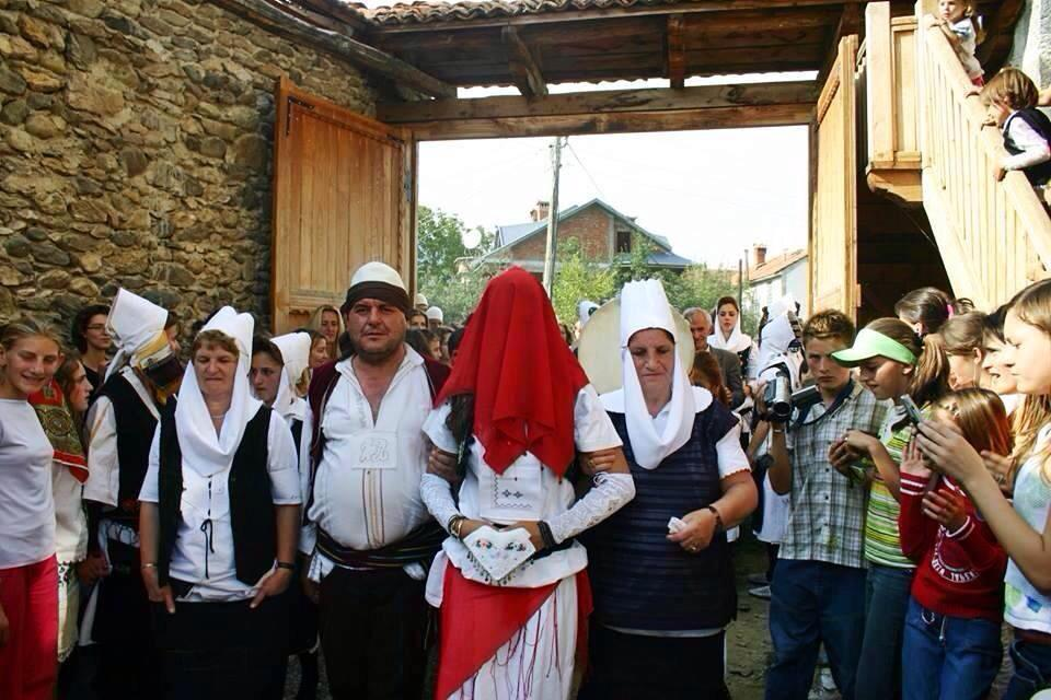 This is how Albanians make their weddings